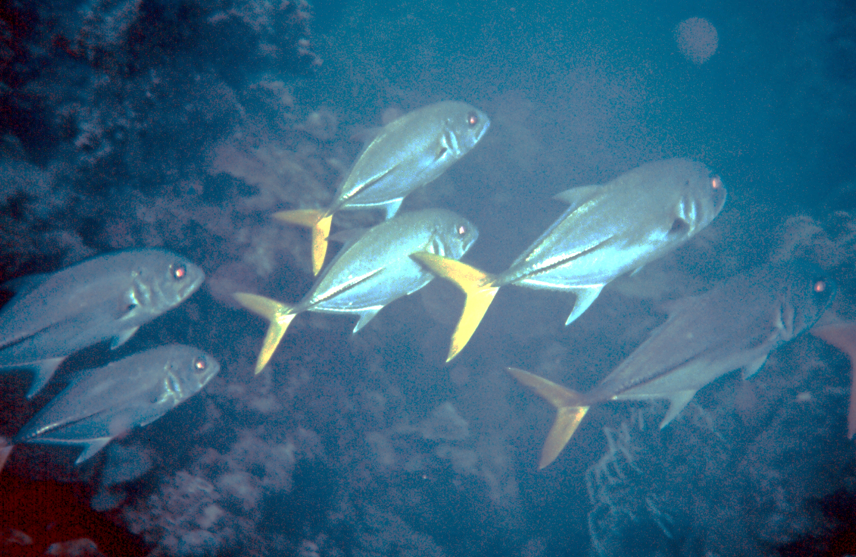 Jack crevalle - Caranx hippos Image ID: reef1524, NOAA's Coral Kingdom Collection Location: Dominica, Caribbean Sea